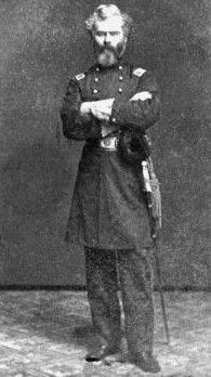 David Stuart, US Representative from Michigan